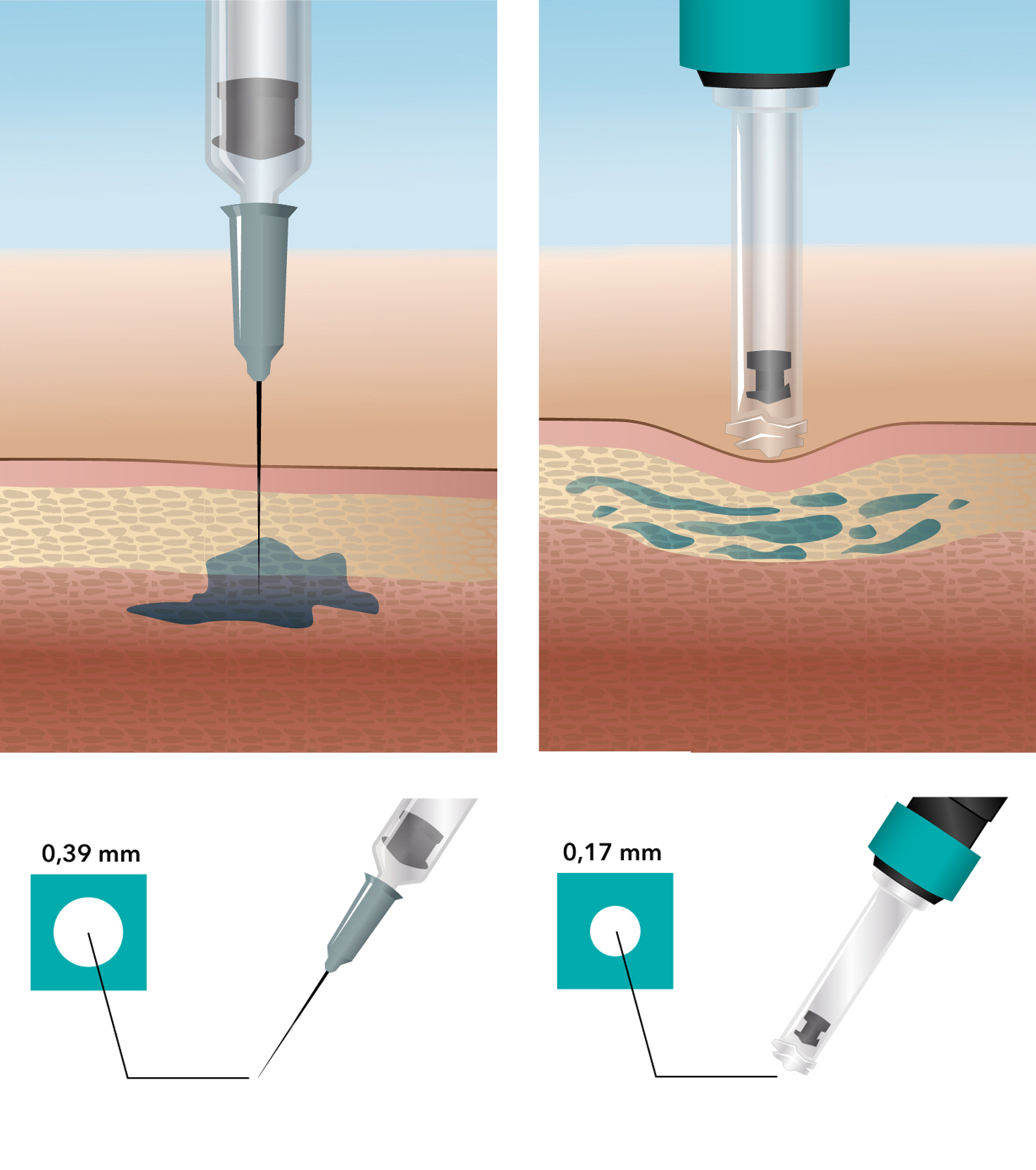 Injektion intradermal